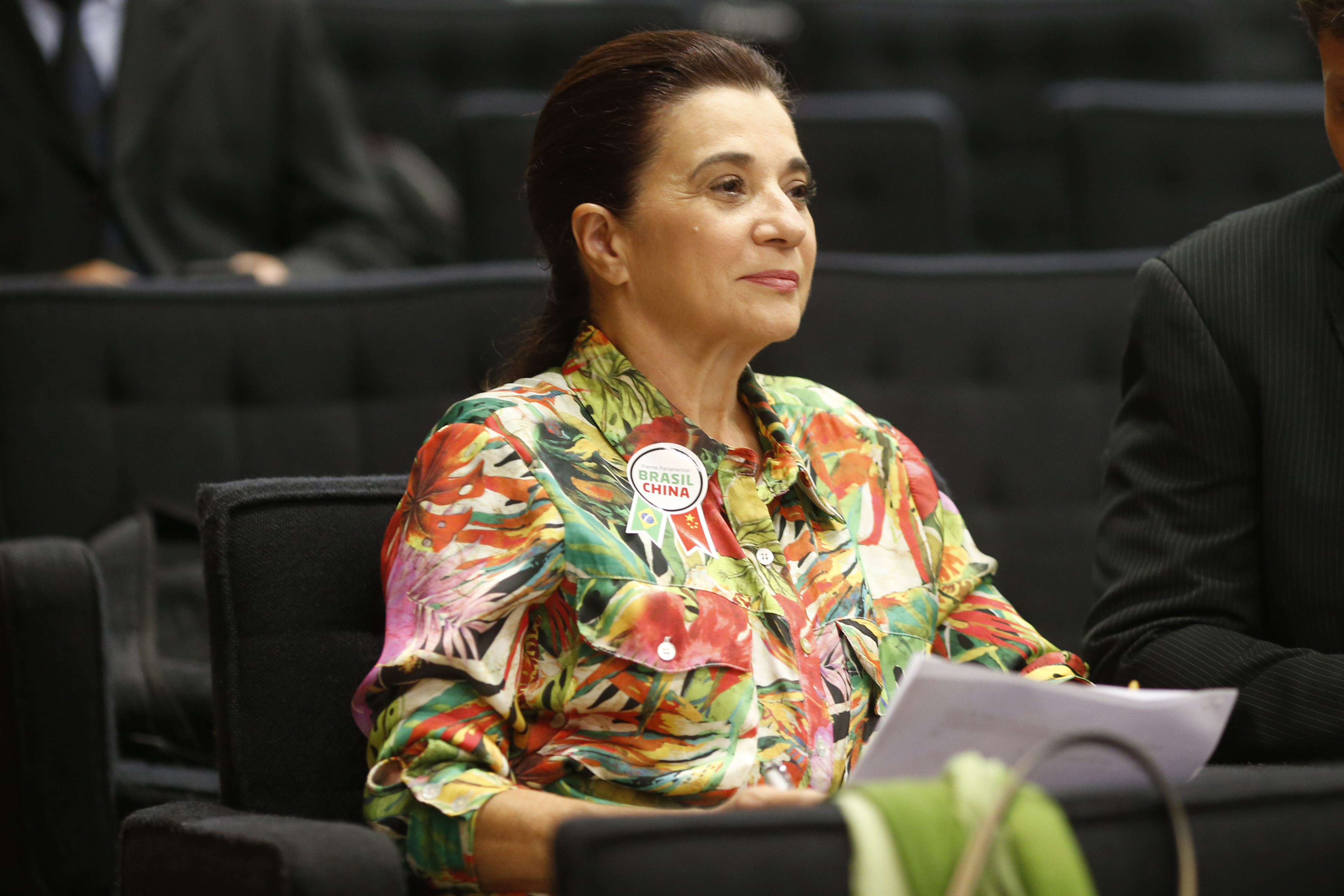 Frente parlamentar Brasil-China, Deputada Marinha Raupp PMDB RO